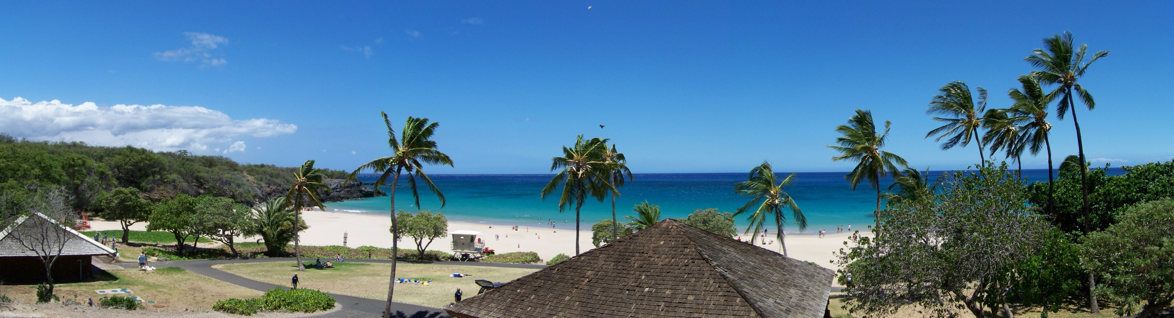 Panorama of Hapuna Beach State Park, island of Hawaii.